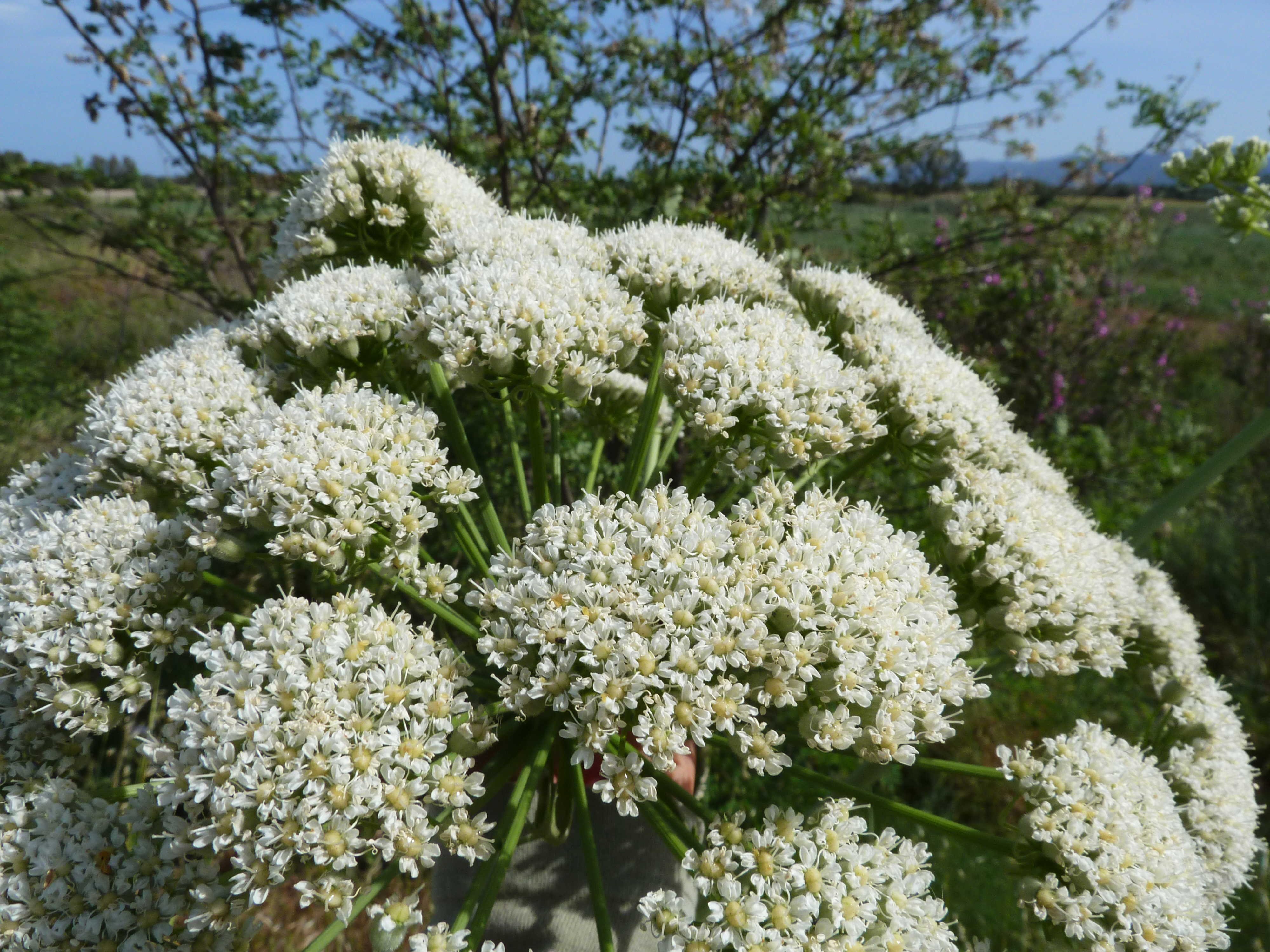 Detail of inflorescence of Magydaris pastinacea. Near Uta (CA), Sardinia